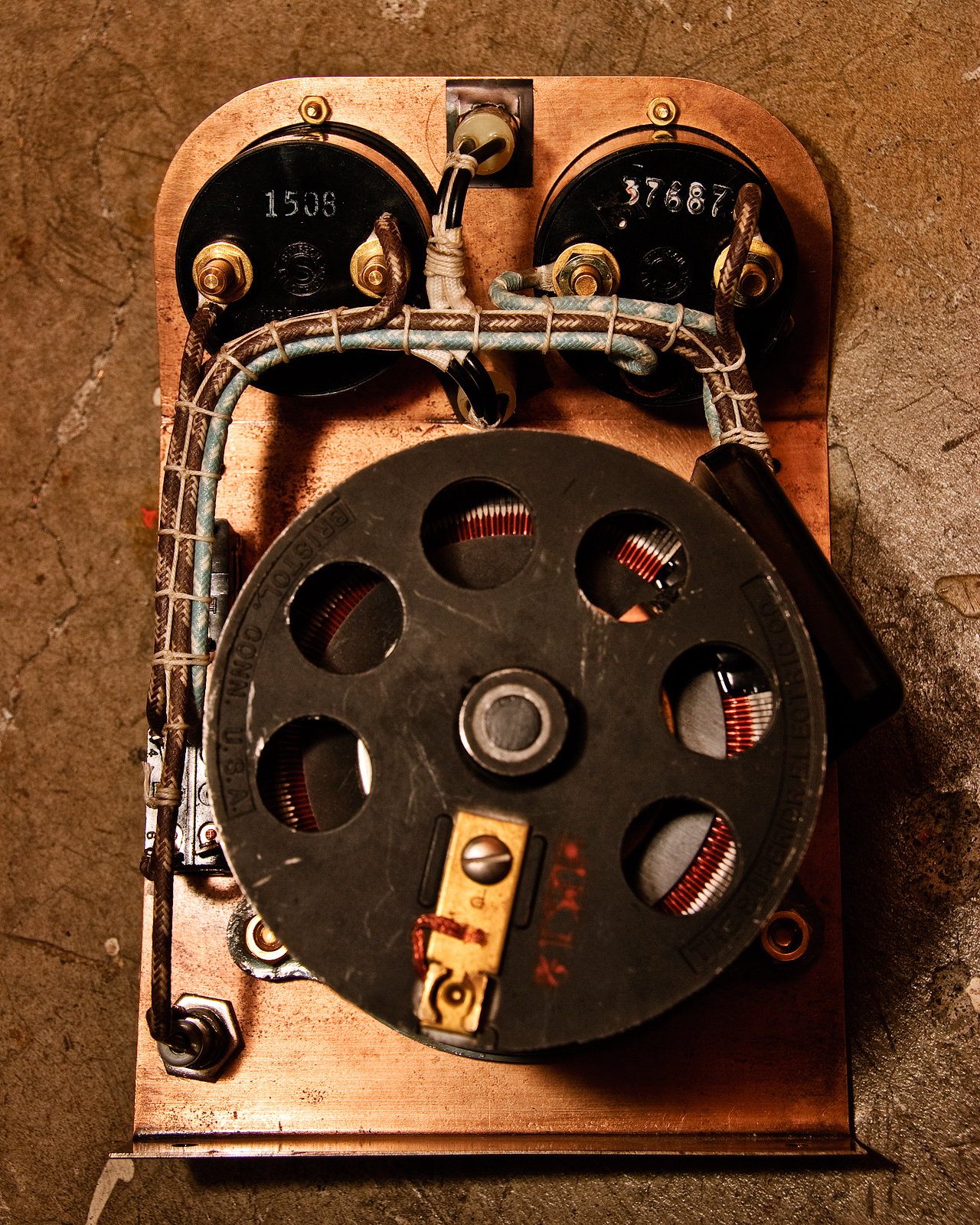 Example of a cable laced wiring harness from a Tesla coil. Original Flickr Description: "The wiring on the main control panel is organized and bundled neatly. Every wire is easy enough to trace by eye. The bundling is done with a technique called "cable lacing". A series of knots and stitches from a continuous piece of wax impregnated cotton or twine is used to bundle cables together. It takes some practice, but it'll outperform zipties in that it won't crush the insulative jackets on wiring and that its not going to shift axially on you if it's loose. Likewise, my bundles have a rectangular corss section. Zipties can't conform and keep bundle shapes other than ellipses."